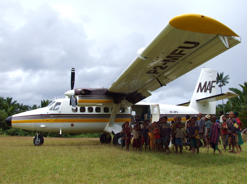 De-Havilland DHC6-300 P2-MFU of Mission Aviation Fellowship